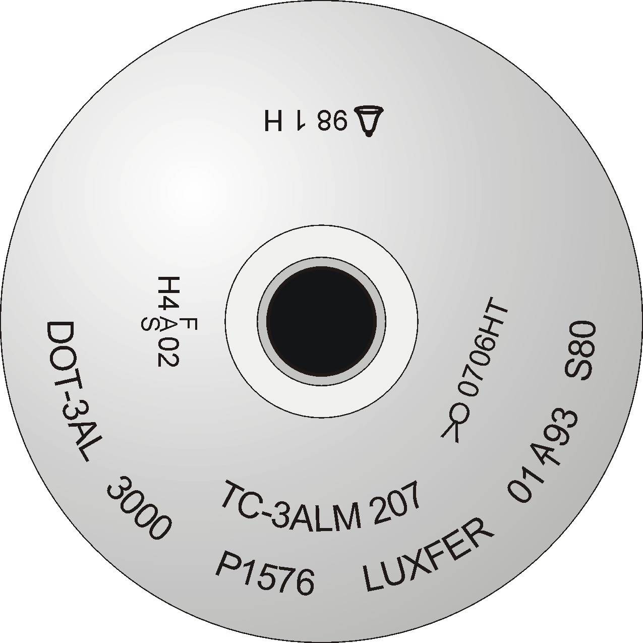 Stamp markings on an American manufacture aluminum 80cu ft 3000psi cylinder